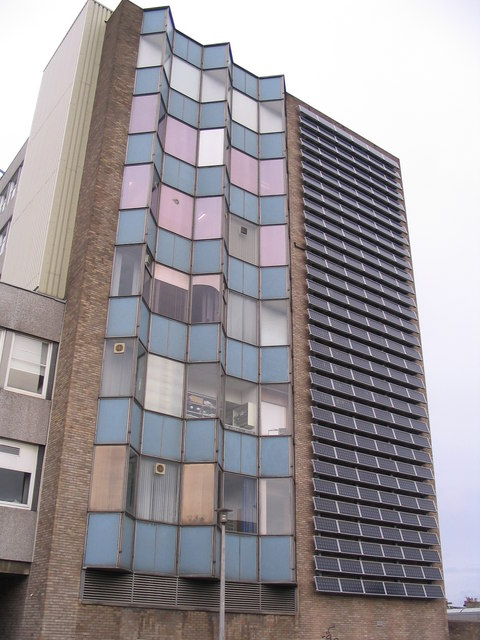 Solar wall. Part of the Merchiston Campus of Napier University. A note at the base of the bank of solar cell panels [the right hand part - the left hand is simply 1960s windows] reads 'These solar panels power up to 80 computers in Napier's Jack Kilby Computing Centre. A joint partnership between School of Engineering and Energy Saving Trust. Spring 2005'. On 3 March 2009 a monitor in the entrance hall of the building recorded that 34.16 MWh of electricity had been generated, presumably since installation, and 20.49 tonnes of CO2 emissions saved.